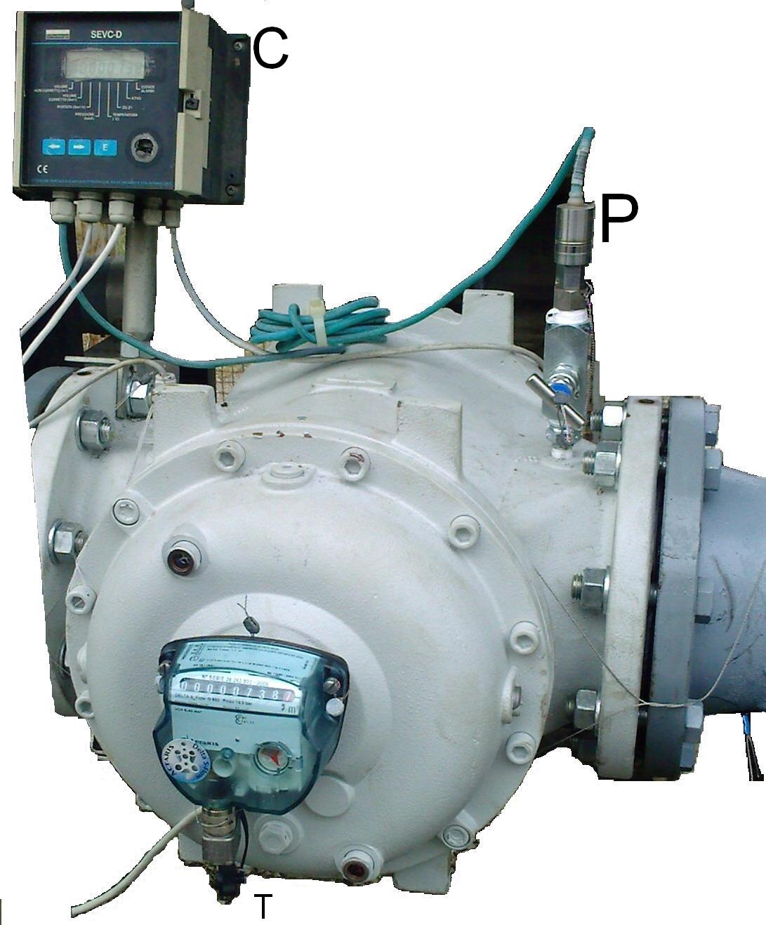 A modern rotary gas meter